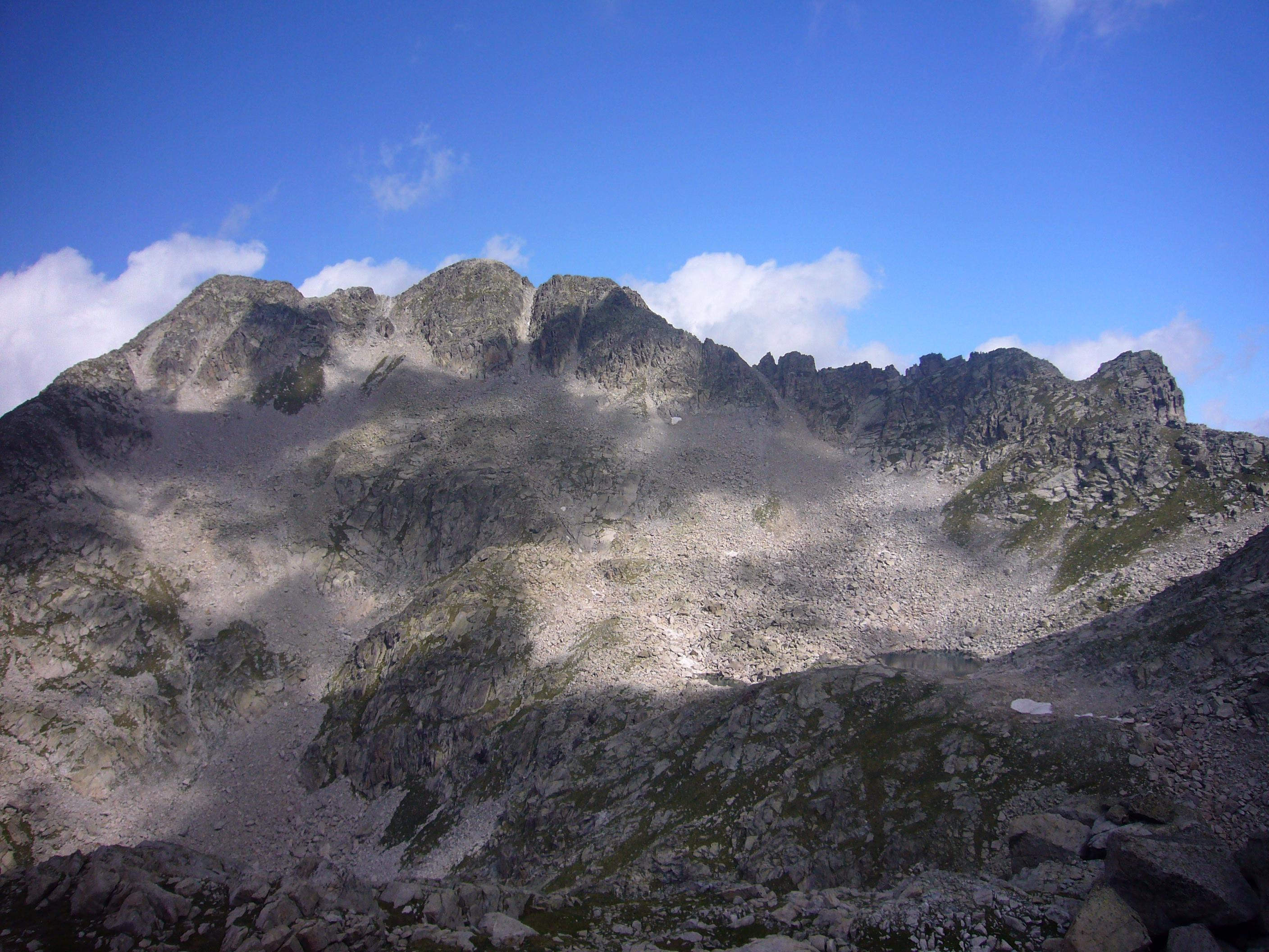 Punta Alta de Comalesbienes, la Vall de Boí, Alta Ribagorça, Catalonia